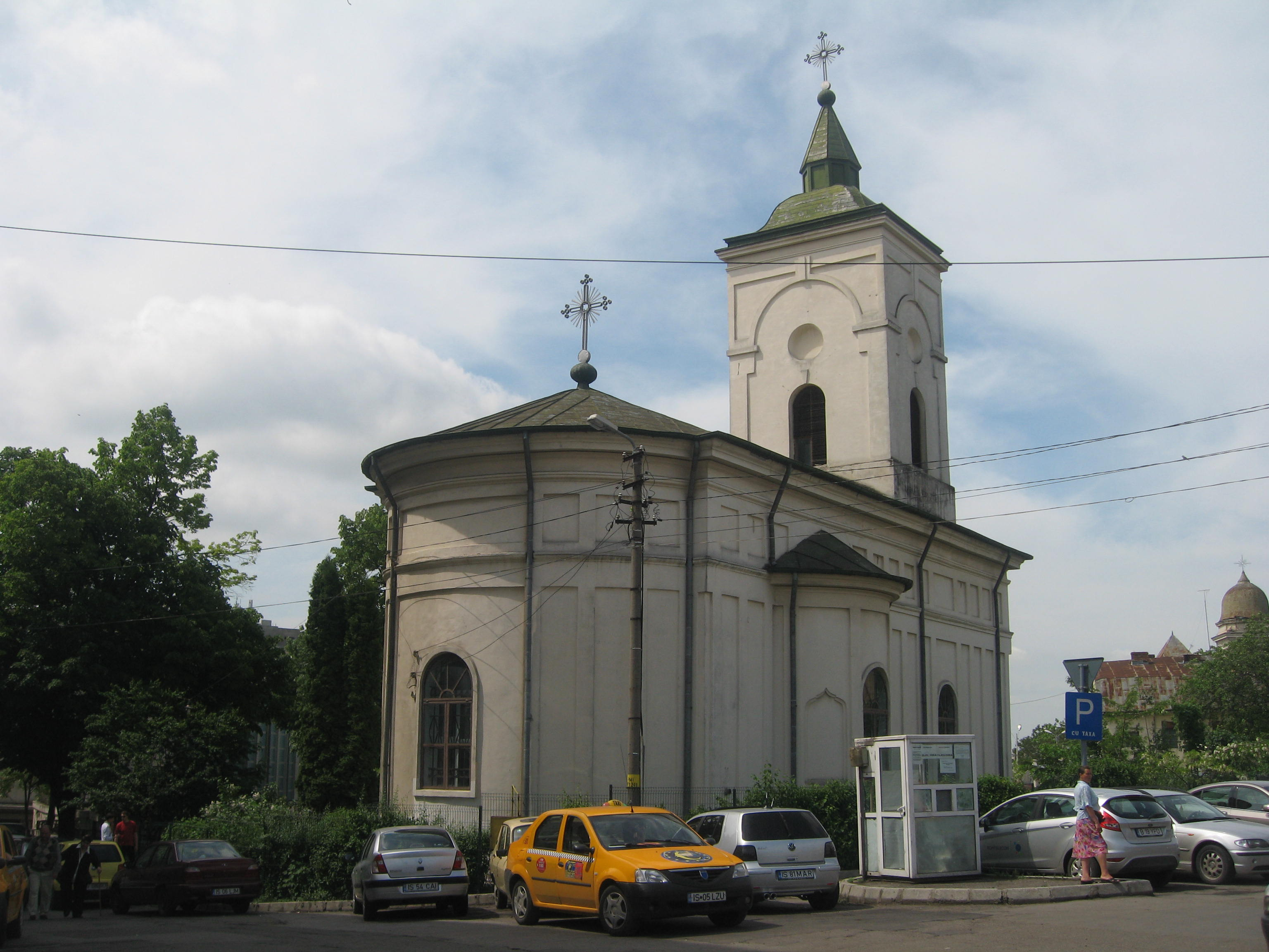 The Church Mitocul Maicilor in Iaşi